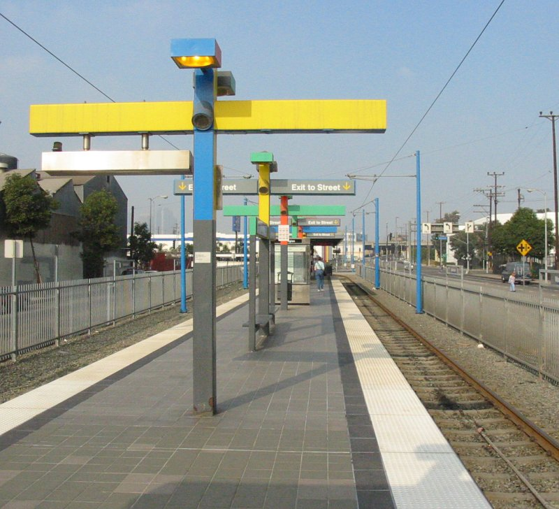 The Washington station on the Los Angeles Metro's Blue Line